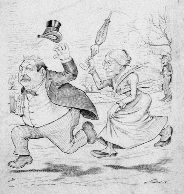 This cartoon shows President Grover Cleveland, carrying a book titled "What I know about women's clubs," being chased with a "Women's Suffrage" umbrella by Susan B. Anthony, as Uncle Sam chuckles in background. The cartoon was created by Charles Lewis Bartholomew and published in the Minneapolis Journal on April 26, 1905. It was occasioned by an article that Cleveland wrote in the Ladies' Home Journal (in the cartoon Anthony has a copy of a magazine called the Ladies' Home Trouble tucked under her arm) warning that women's clubs were harmful to marriage and declaring that women should honor and care for their husbands. Anthony wrote a sharp response that was widely reprinted. In an interview she also reminded people of Cleveland's marriage infidelity and illegitimate child, saying "I think that Mr. Cleveland is a very poor one to attempt to point out the proper conduct of the women." By then, Anthony and her campaign for women's rights were widely recognized.[1]